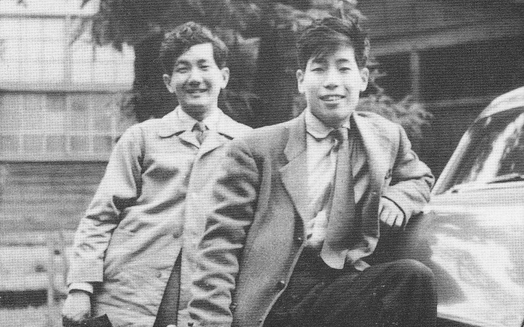 The photo of Hiroyuki Iwaki and Naozumi Yamamoto, that was taken around 1953.